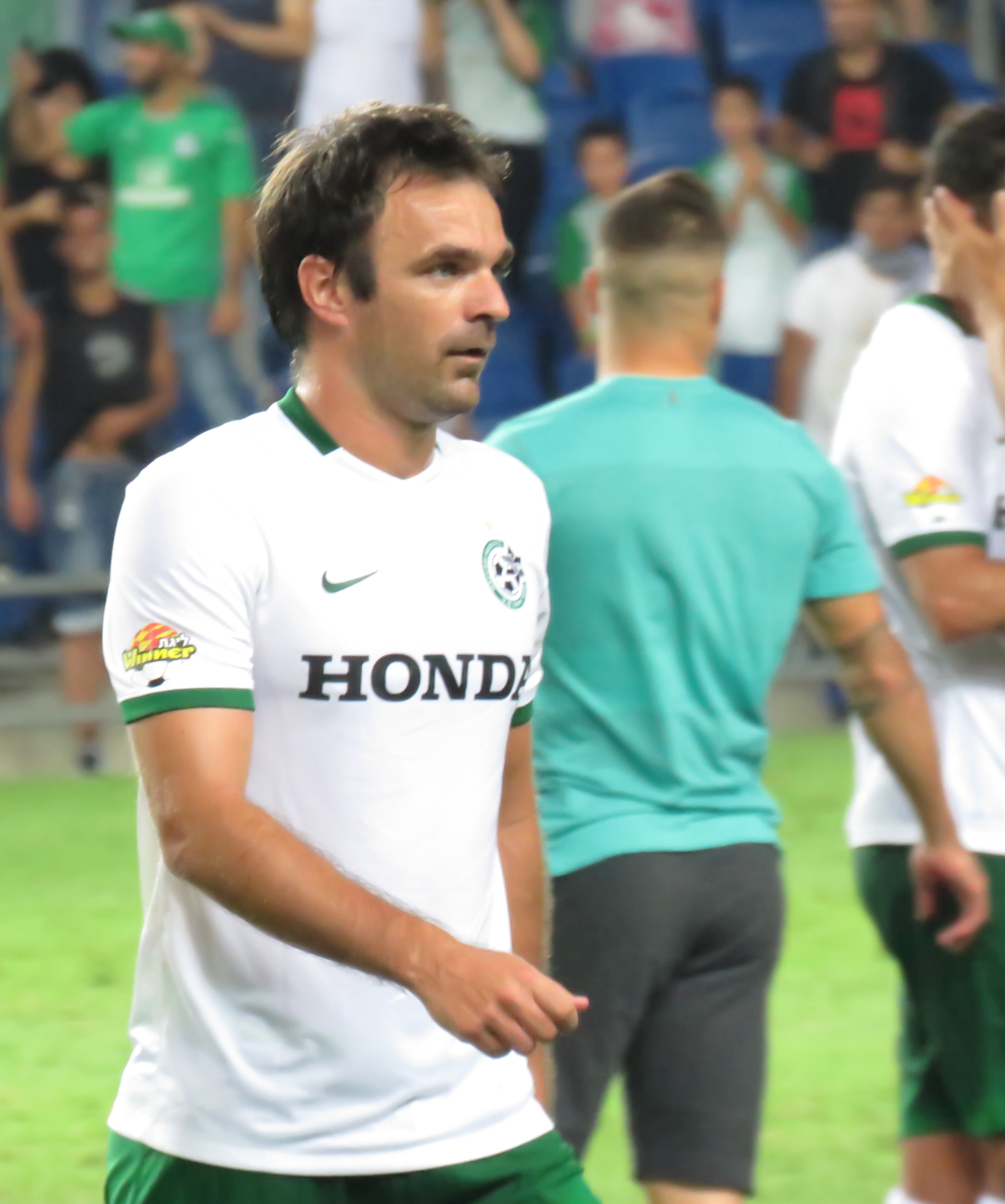 Hapoel Ra'anana vs. Maccabi Haifa F.C., 3 October, 2015